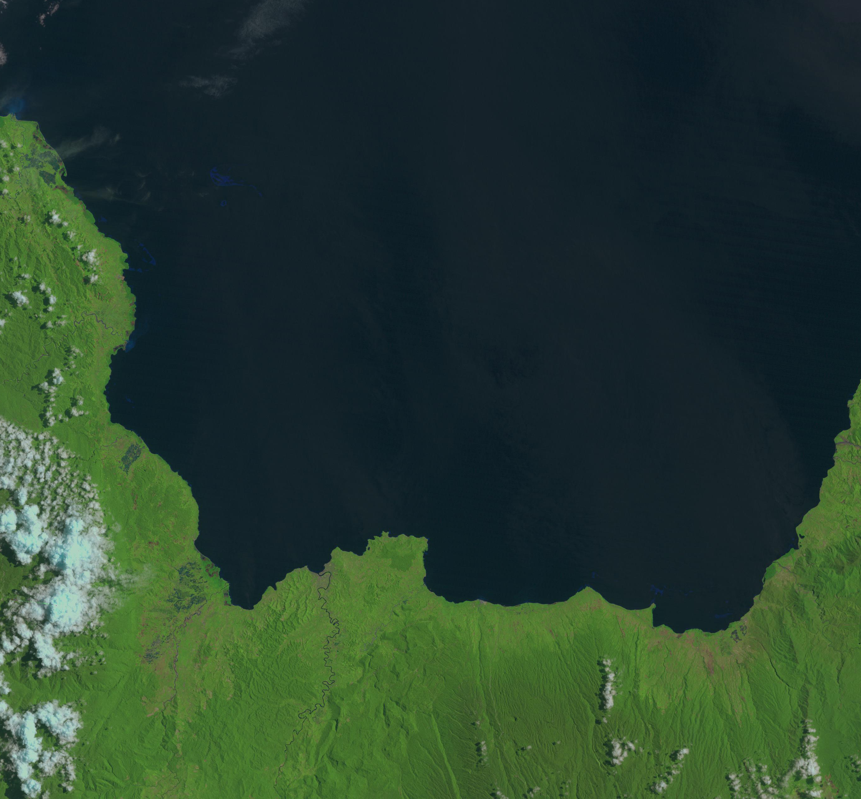 This image (Landsat 4-5 TM C1 Level-2) shows Poso Regency, which is located in Central Sulawesi province, Indonesia.